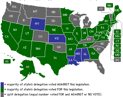 Map detailing the Emergency Economic Stabilization Act of 2008 Senate vote.